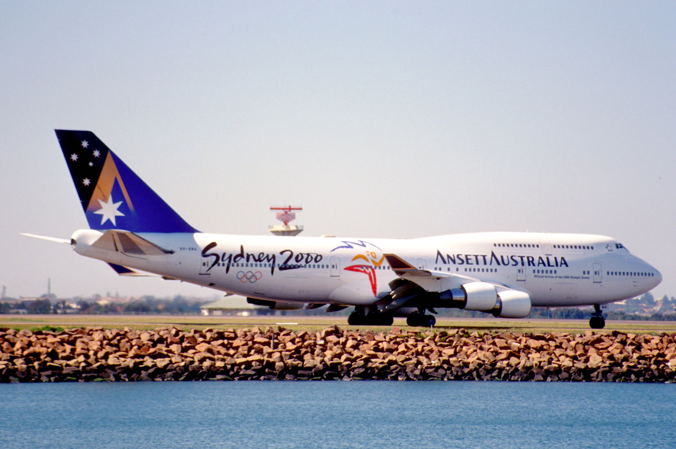 This Boeing 747-412 took its first flight on February 6, 1989...(c/n 24062/ 722) 18/03/1989 Singapore Airlines 9V-SMB 08/08/1999 Ansett Australia VH-ANA 09/11/2001 Singapore Airlines VH-ANA 01/06/2003 Air Pacific DQ-FJL